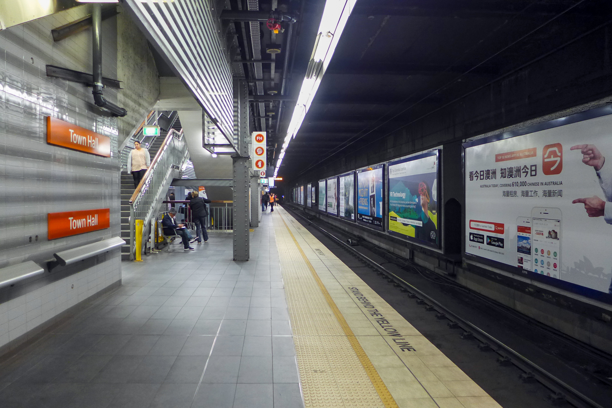 Town Hall railway station, Sydney